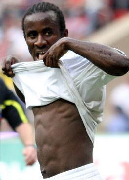 Ivorian forward Seydou Doumbia